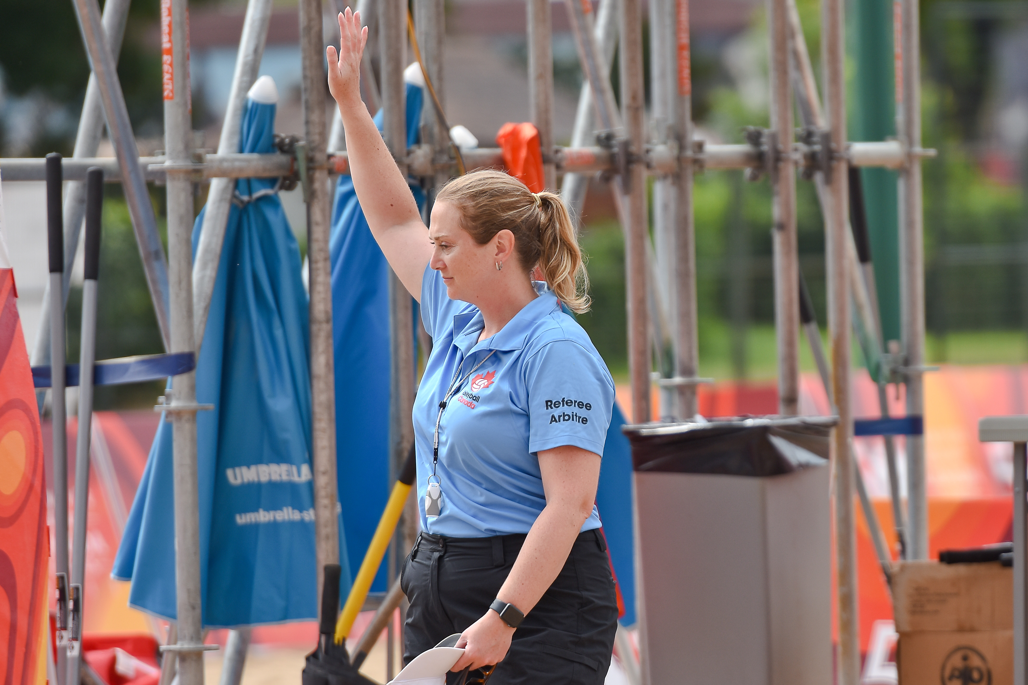 Steve Carmichael - 2017 08 04 Beach Volleyball-1965